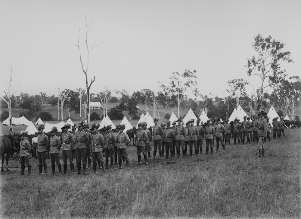 The soldiers were taking part in maneuvers in the Mundoolun and Tamborine area near the Albert River. (Description supplied with photograph.) A unit of the Light Horse mounted infantry on exercises in south-east Queensland, Australia.